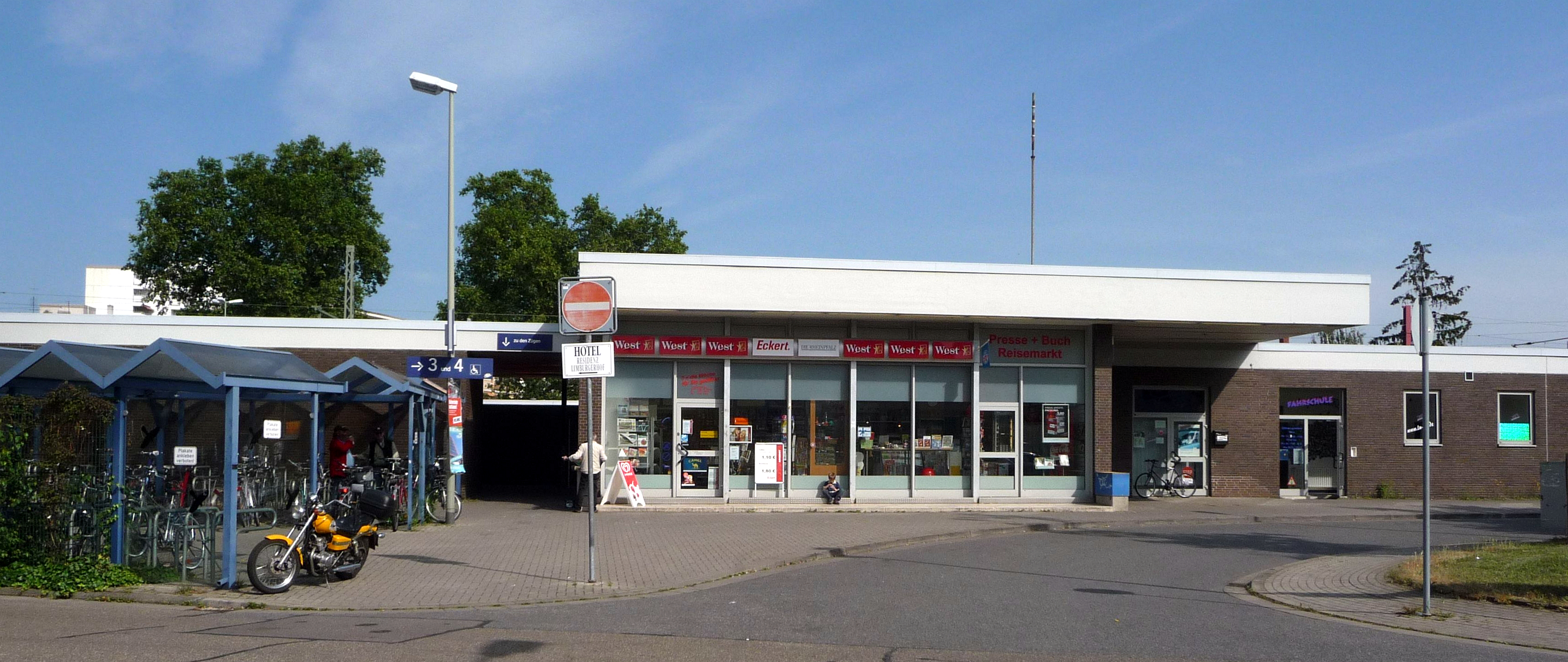 Limburgerhof, Germany